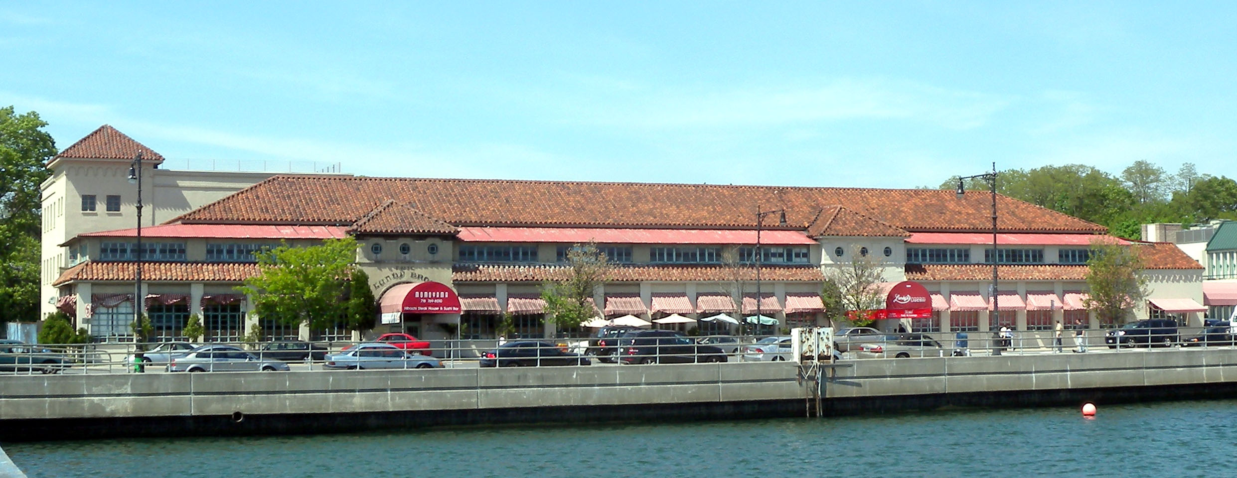 Looking north along footbridge across Sheepshead Bay at Lundy's Restaurant on a sunny midday.